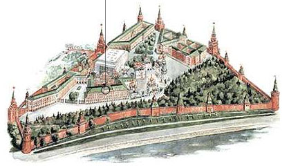 Overview map of the Moscow Kremlin. Location of Grand Kremlin Palace marked.